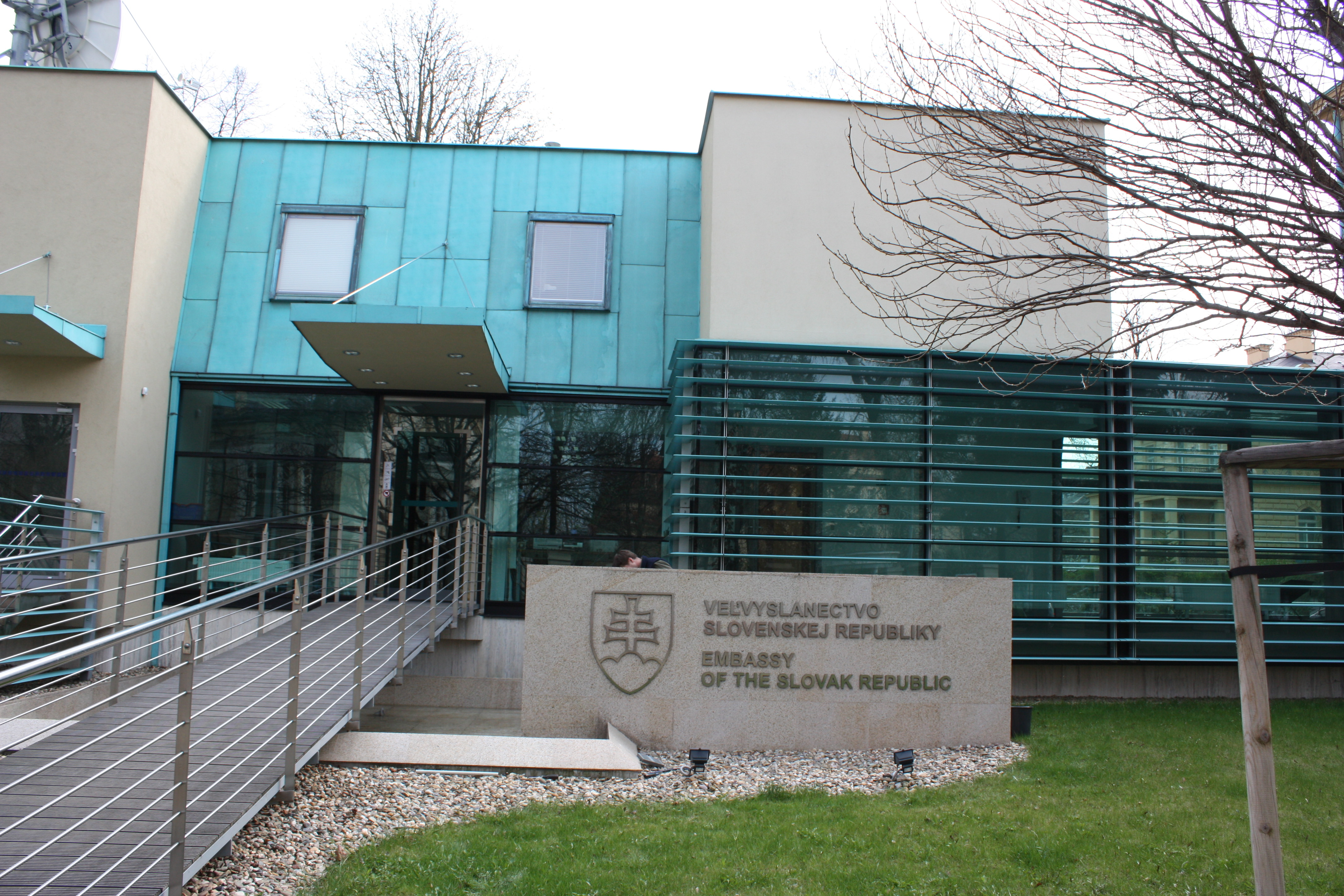 Slovak Embassy in Prague 6, Pelléova 87/12, Czechia.